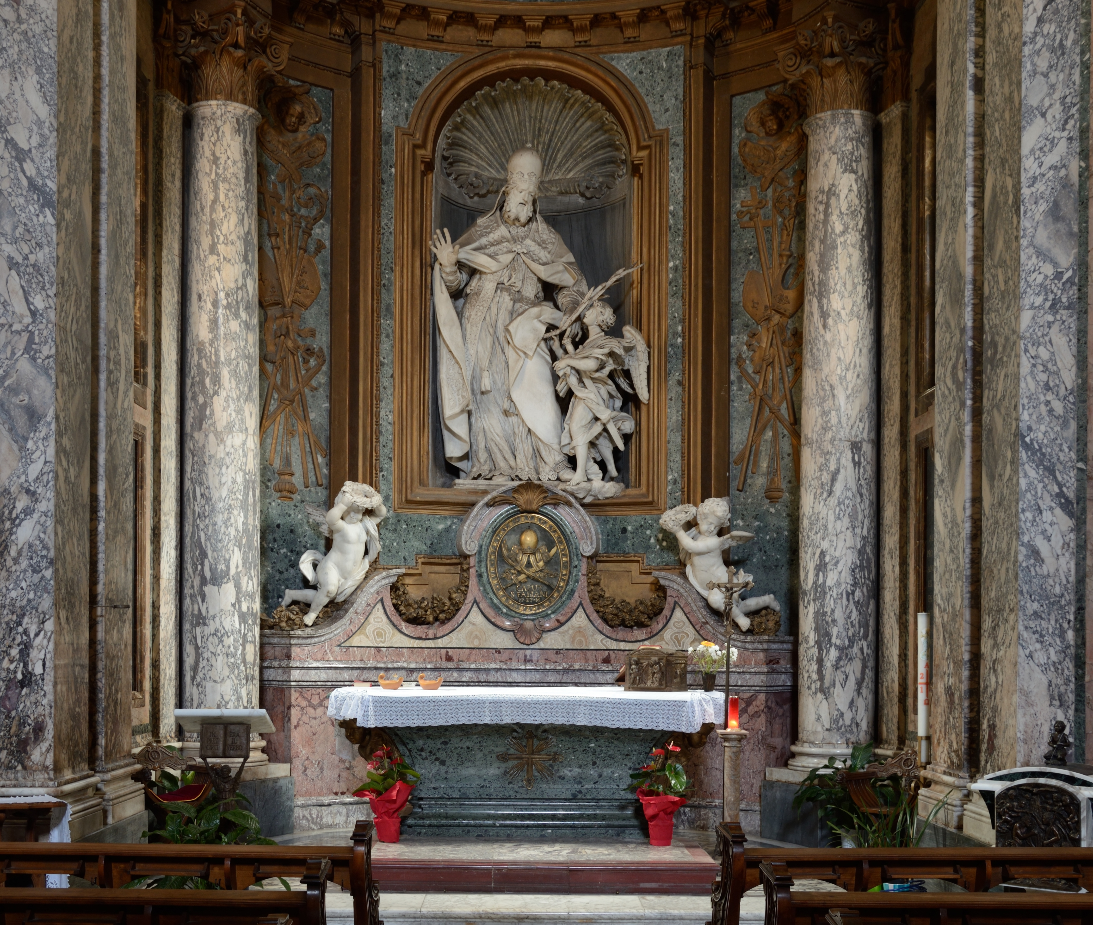 Cappella Albani in San Sebastiano fuori le mura (Rome)